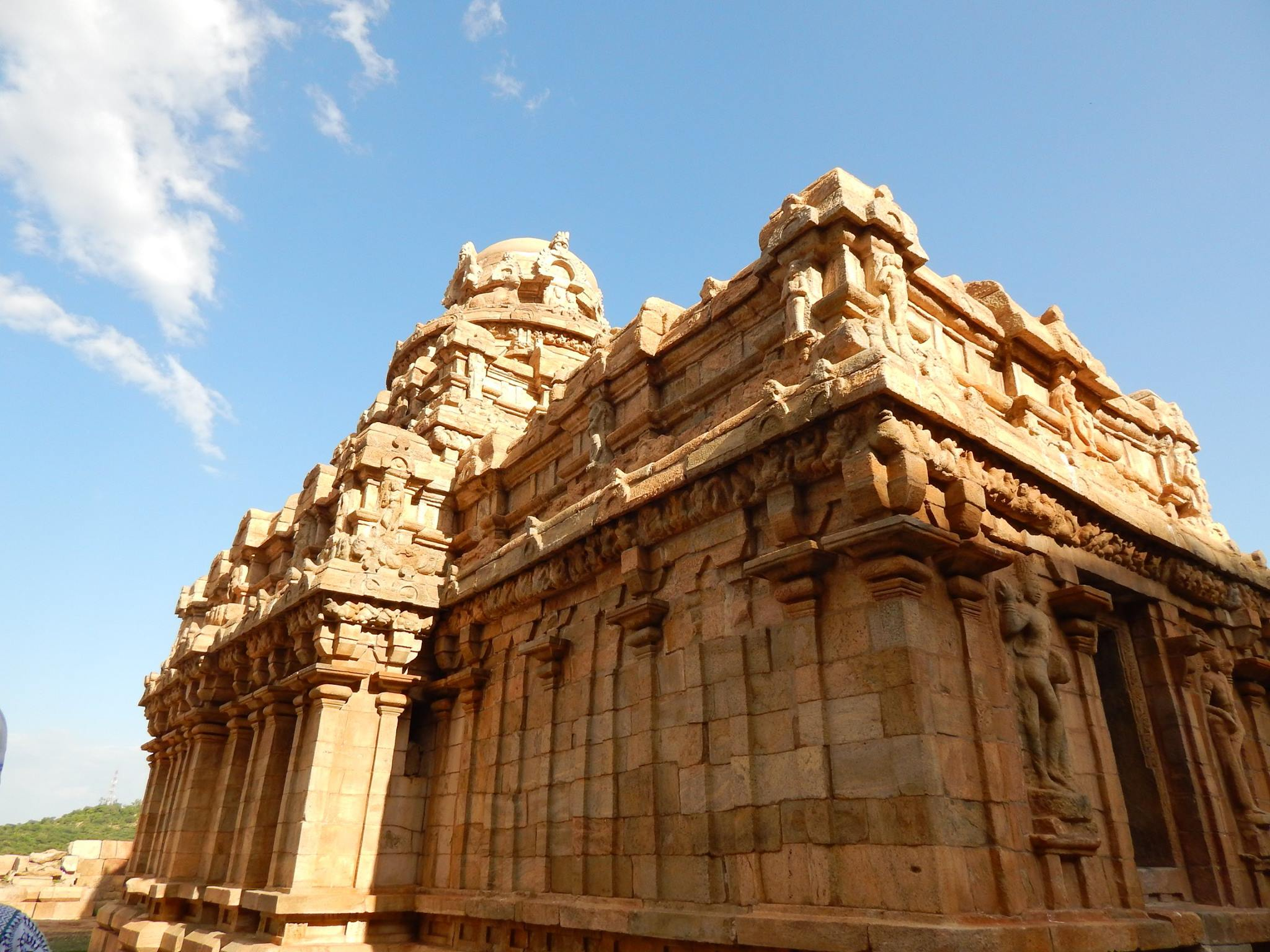 THis my photo